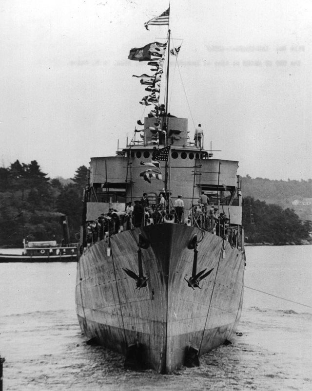 Launch of the U.S. Navy destroyer USS De Haven (DD-469) at the Bath Iron Works, Maine (USA), on 28 June 1942.